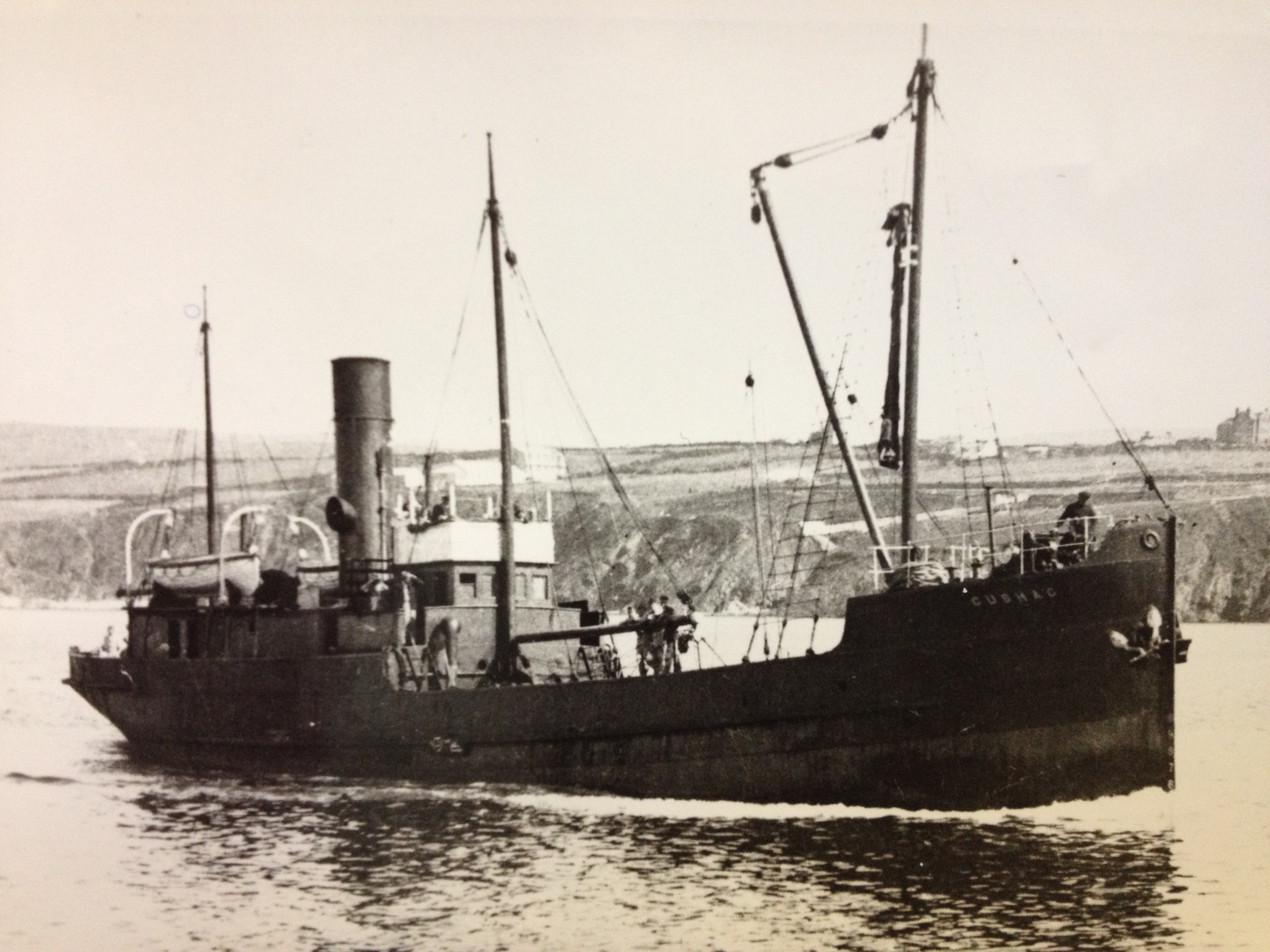 Isle of Man Steam Packet Company cargo vessel Cushag, approaches Peel.